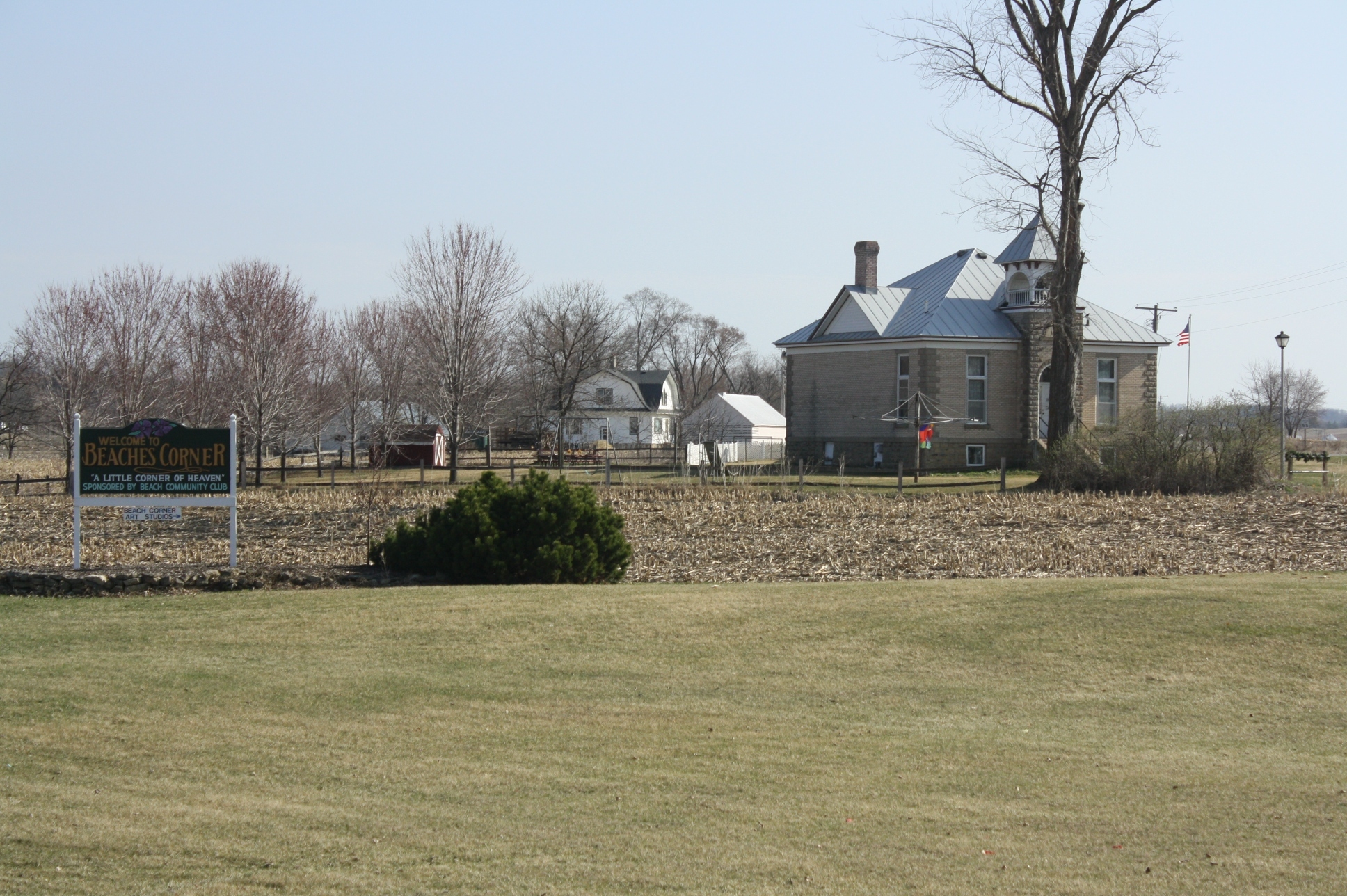 Looking east at the sign for Beaches Corner, Wisconsin with school in the background.